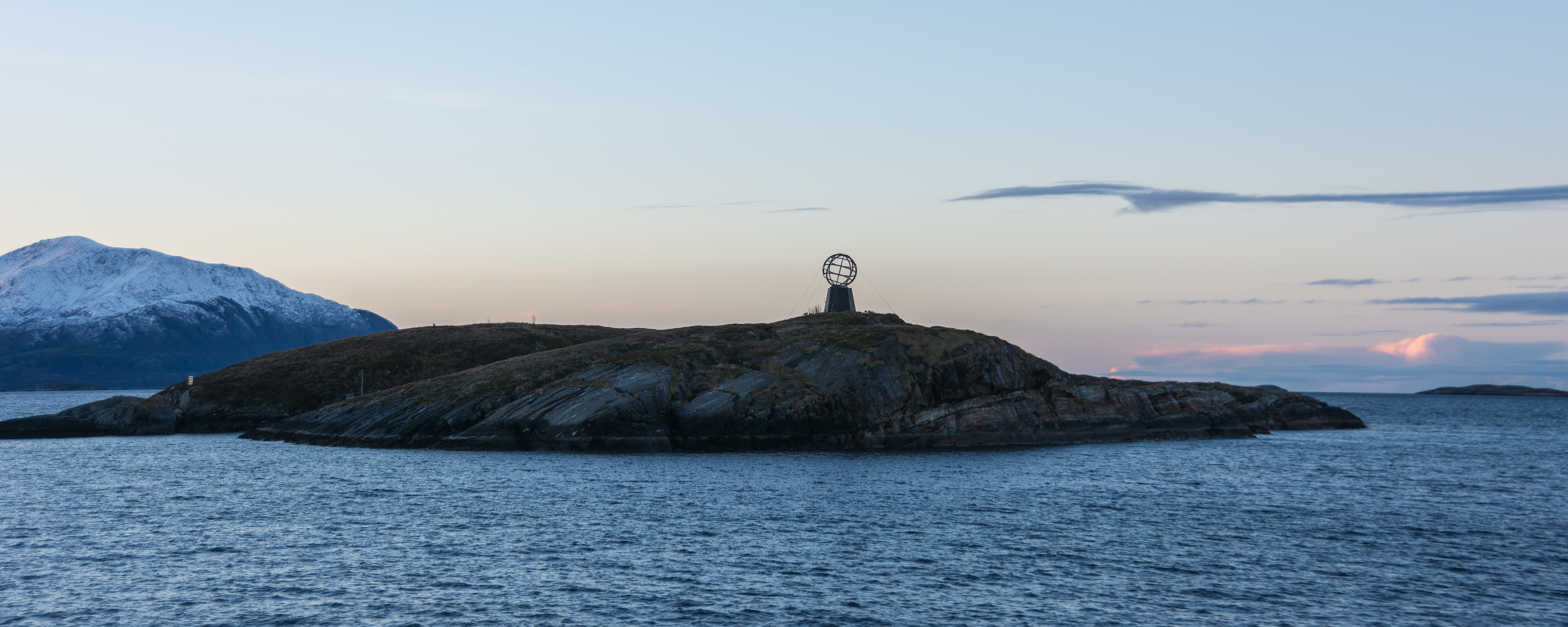 Northern Polar Circle Globe is the marker for Arctic Circle, currently at 66°33' latitude, on the island of Vikingen Norway. Image taken on November 20, 2016.